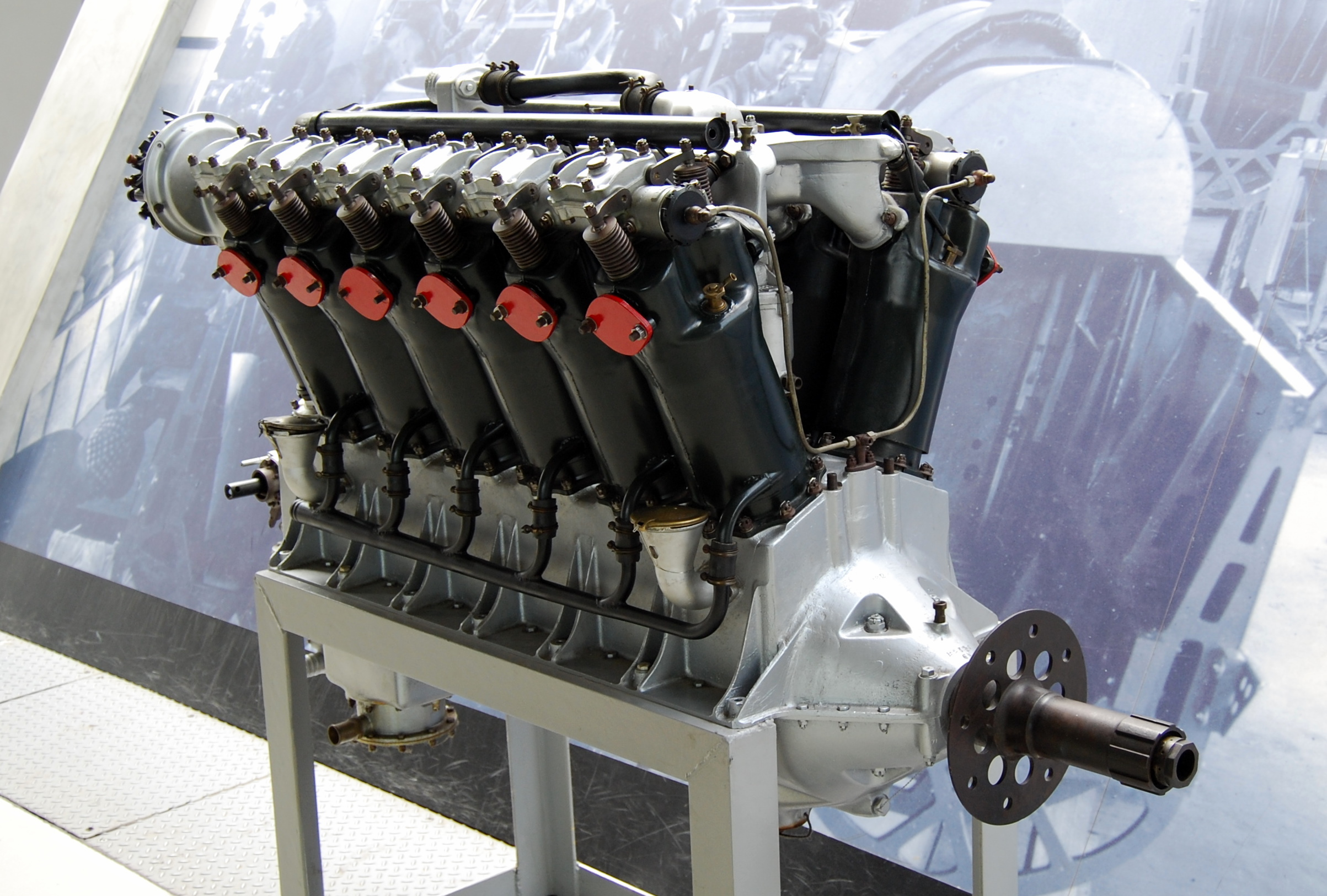 Photo ref; DSC0564-2012